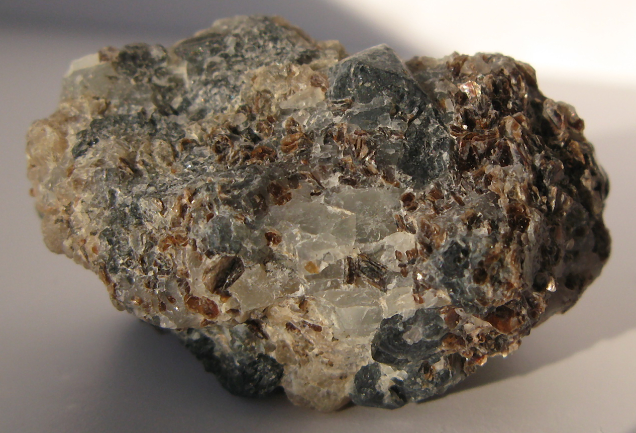 Sapphirine